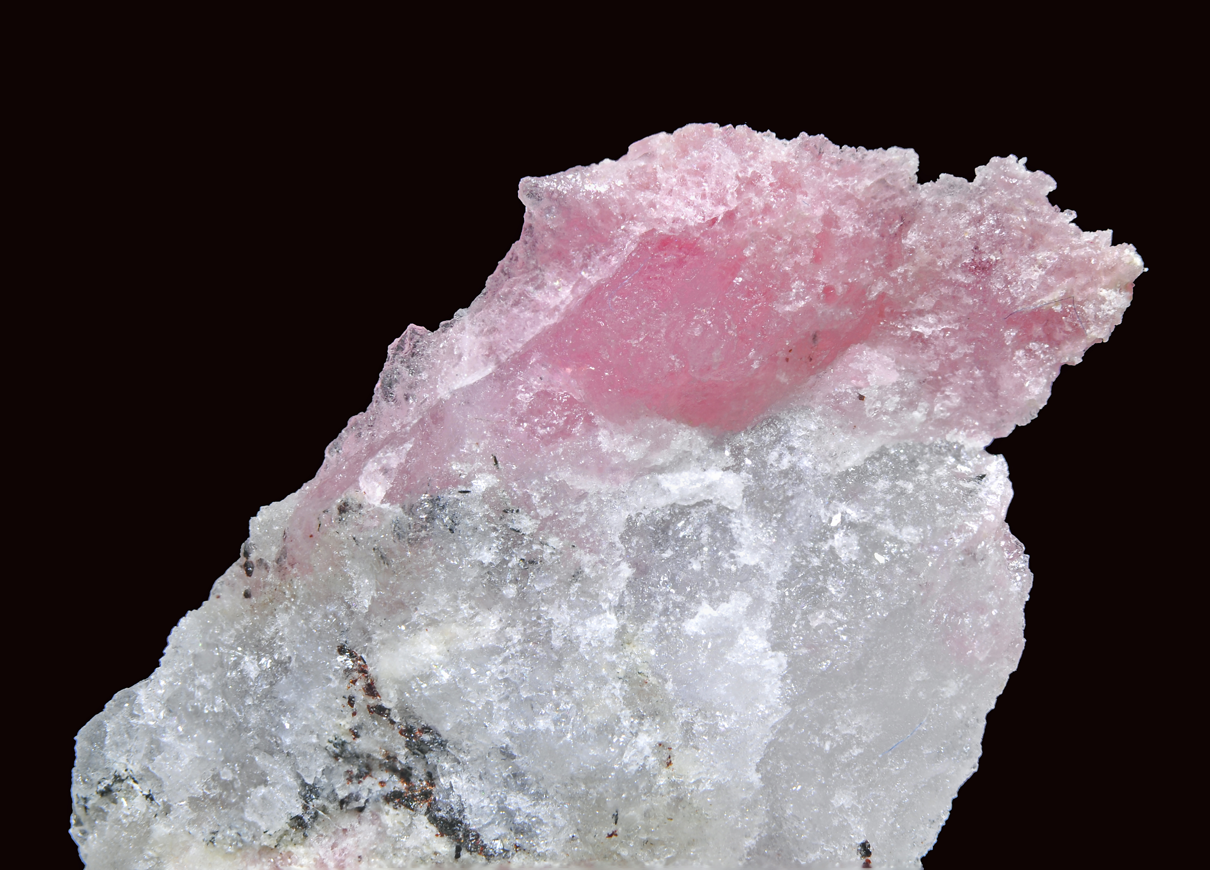 Tugtupite : Tugtup Agtakorfia (Tuttup Attakoorfia), Tunugdliarfik Firth (Eriksfjord), Ilimaussaq complex, Narsaq, Kitaa (West Greenland) Province, Greenland